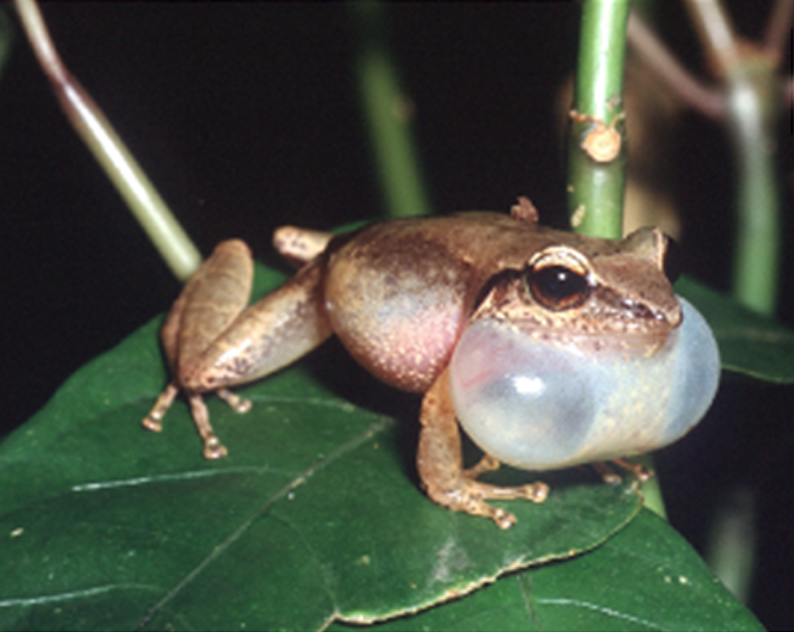 Eleutherodactylus martinicensis with external vocal sac.